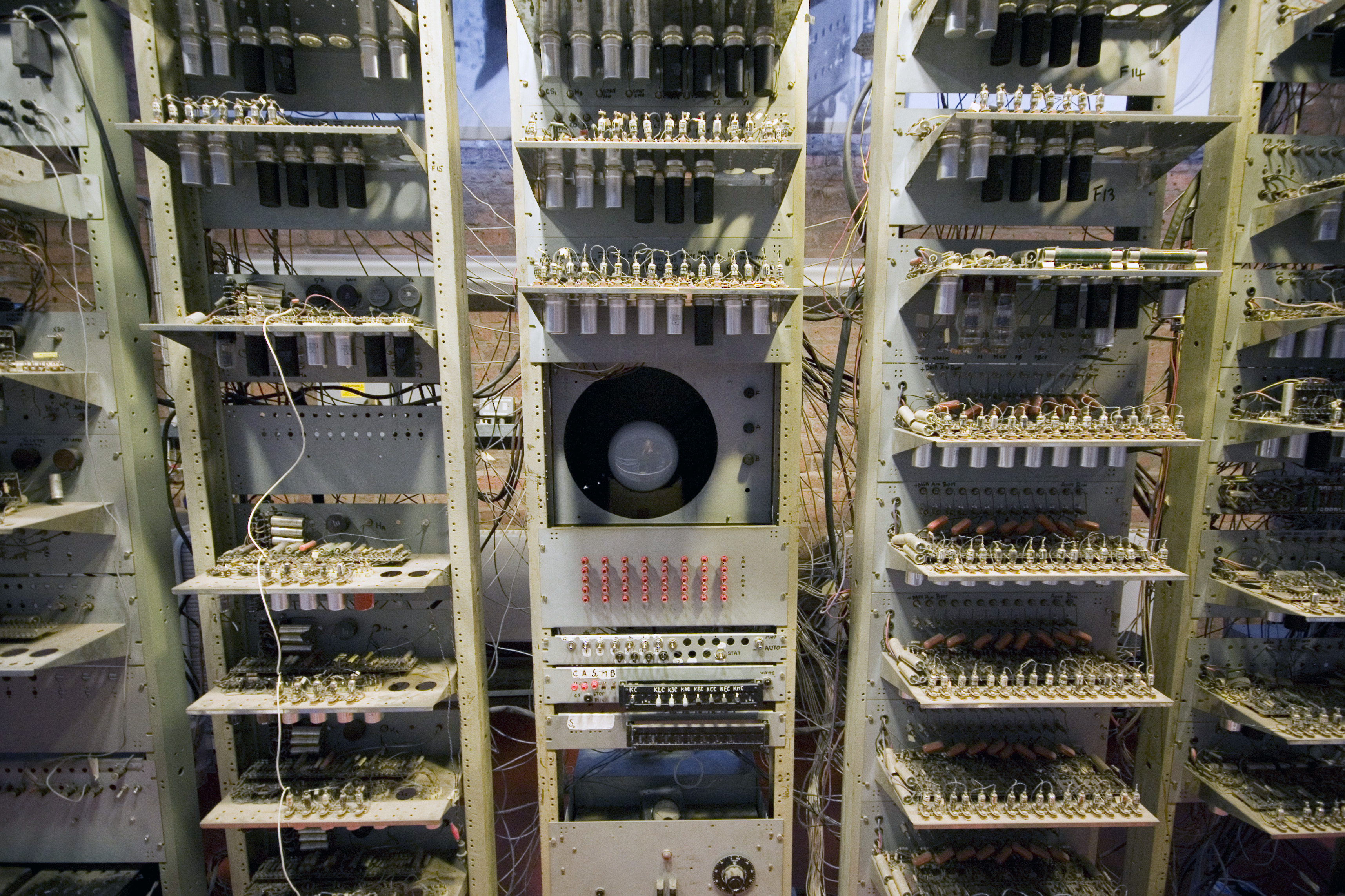 Manchester Baby replica (aka SSEM) at the Museum of Science and Industry, closer shot showing the CRT.